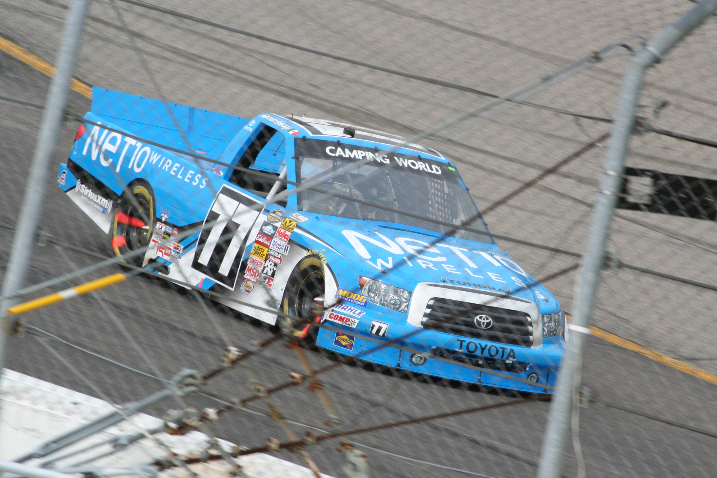 Germán Quiroga drives the No. 77 Net10 Wireless Toyota for Red Horse Racing during the North Carolina Education Lottery 200 at Rockingham Speedway, Rockingham, NC, April 14, 2013